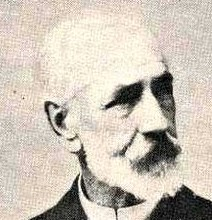 Pedro Francisco Lira Rencoret (17 May 1845, Santiago – 20 April 1912, Santiago) was a Chilean painter and art critic, who organized exhibitions that led to the establishment of the Chilean National Museum of Fine Arts. He is best known for his eclectic portraits of women.